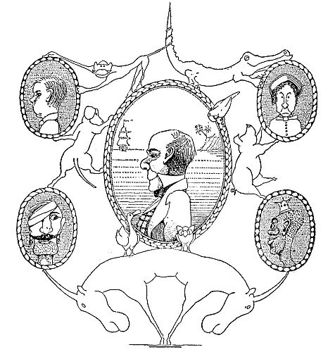 Part of the title page of The Story of Doctor Dolittle, published in 1920.